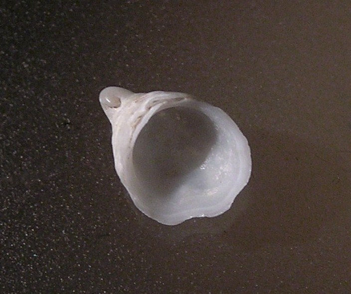 Malluvium otohimeae (Habe, 1946), a sea snail from the family Hipponicidae; Philippines